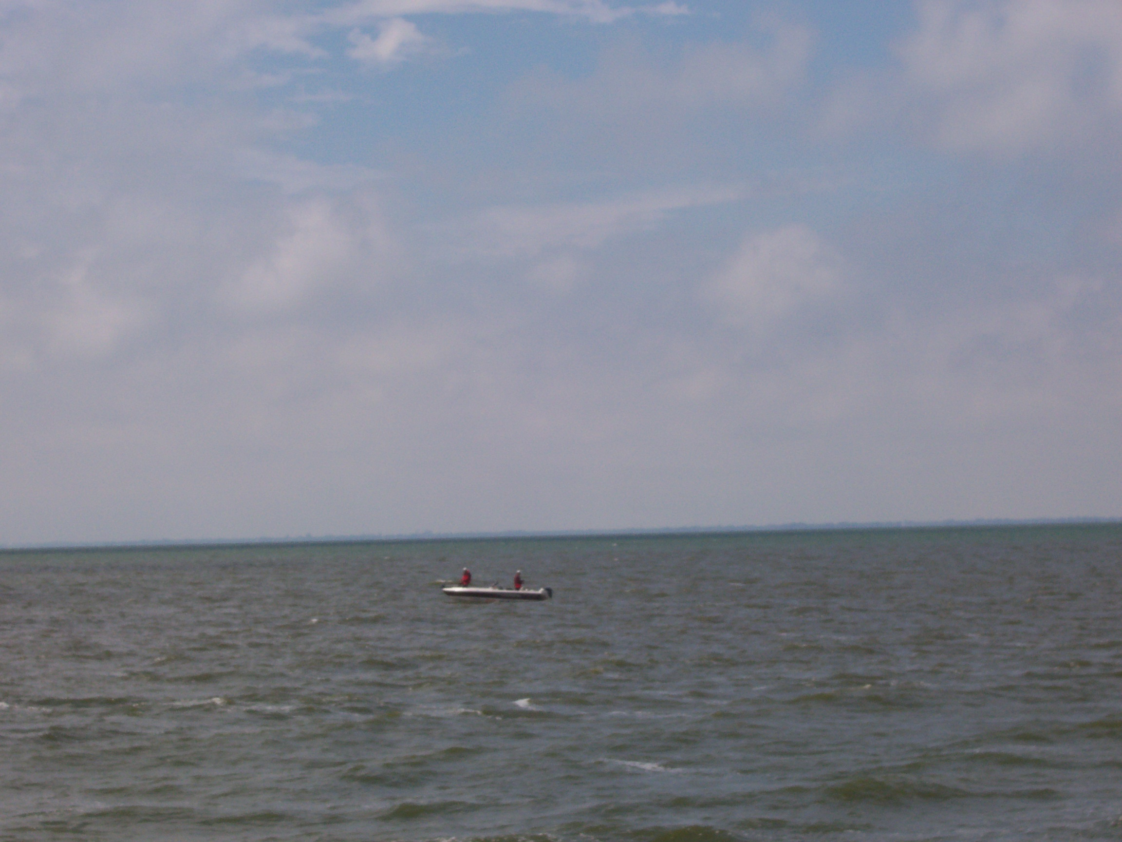 People fishing near the shore of Lake Winnebago. Picture taken from the Stockbridge Harbor, Calumet County, Wisconsin. I took this image myself on August 6, 2006 (camera date set wrong).